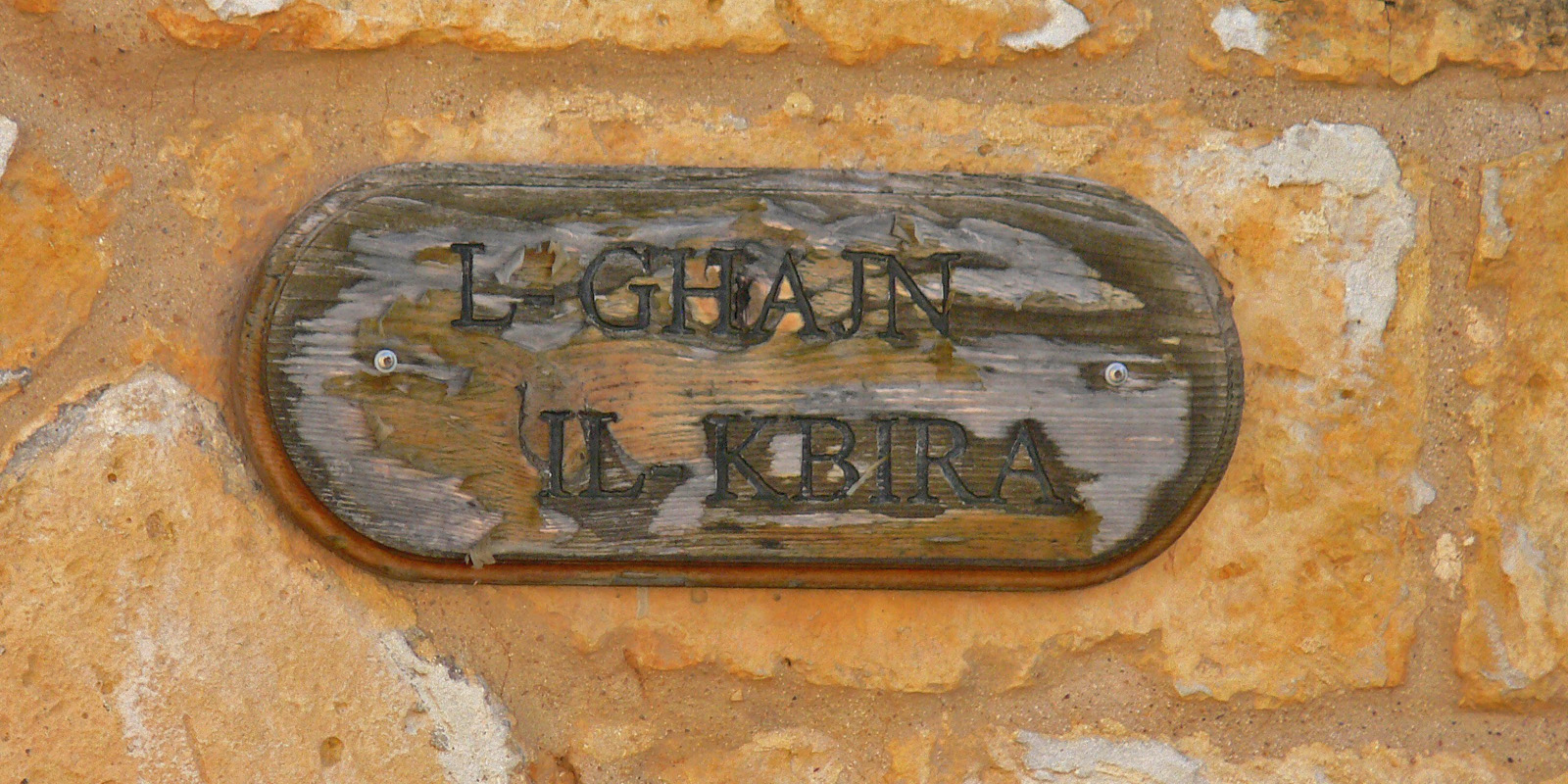 Inscription of the Għajn il-Kbira (The Great Fountain) in Fontana